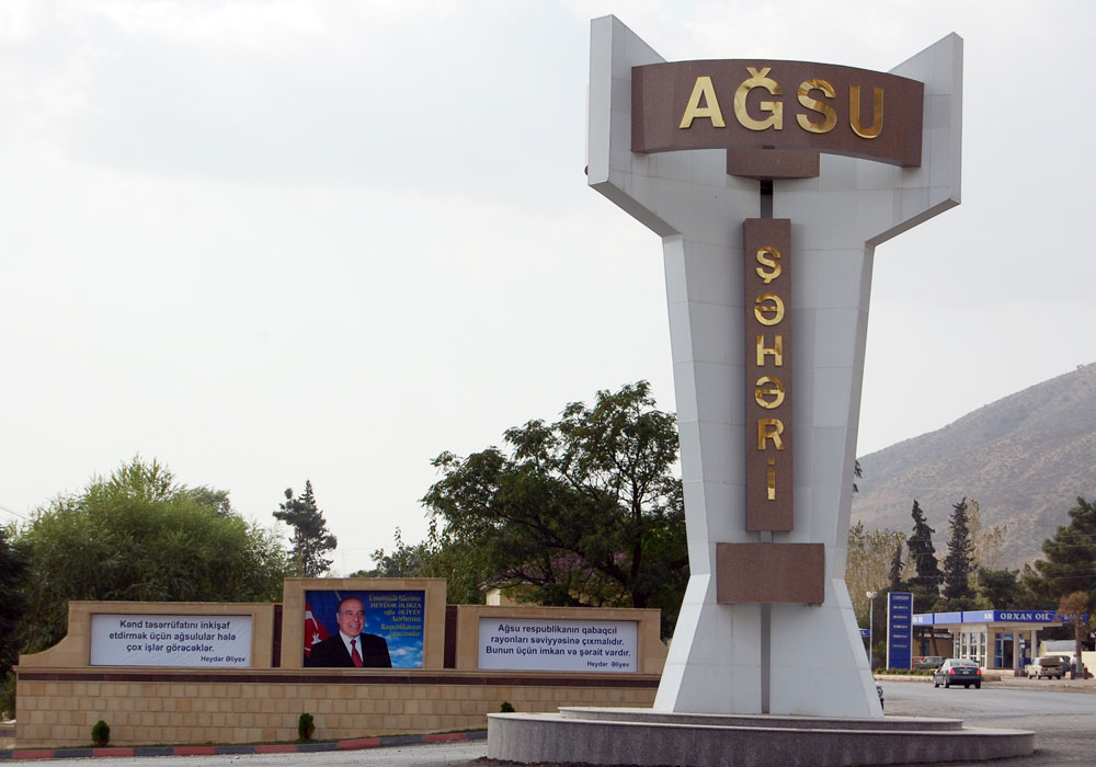 Road sign at the entrance to Aghsu city. Republic of Azerbaijan.